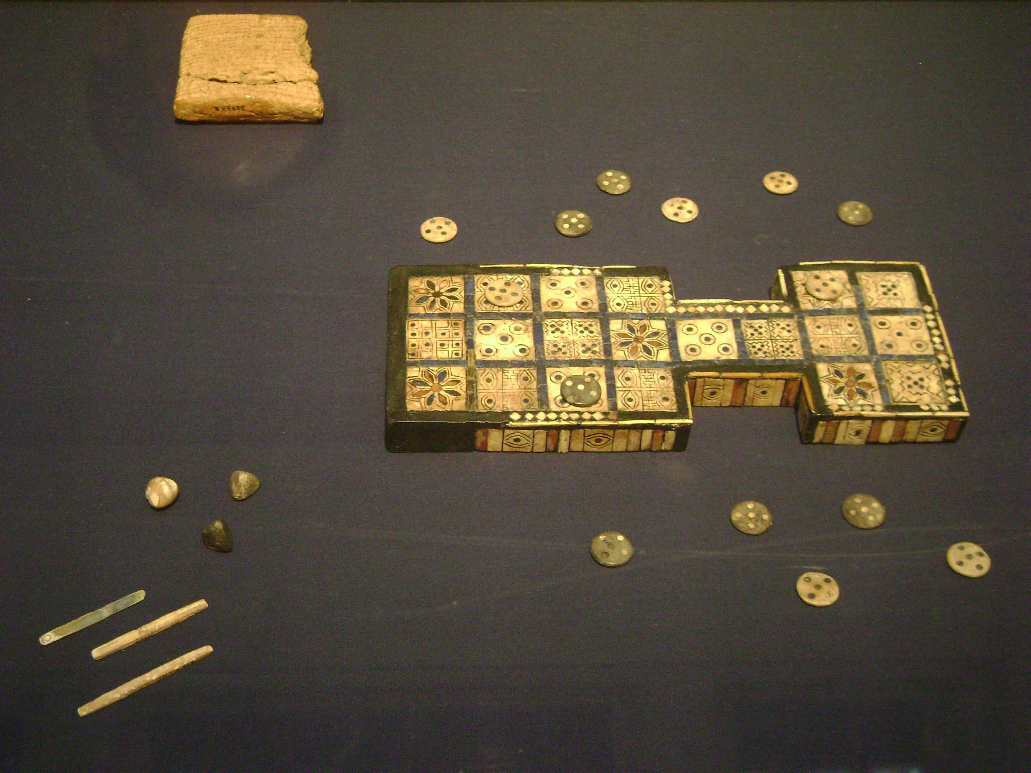 Royal game of Ur at the British Museum.